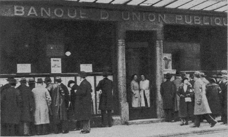 Banque d'Union Publique (Paris, Rue de Provence), reproduction of a photography, in: Police Magazine, issue 73.